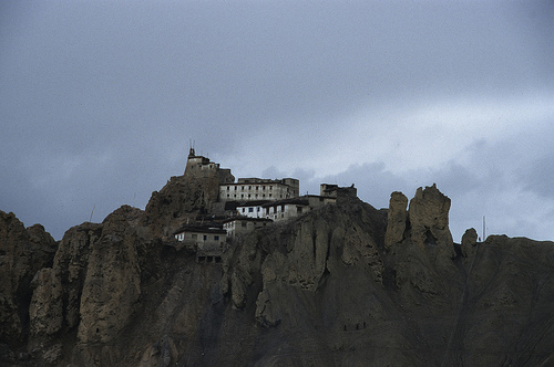 the file has taken from Permission granted. Image shotted by gnozef.